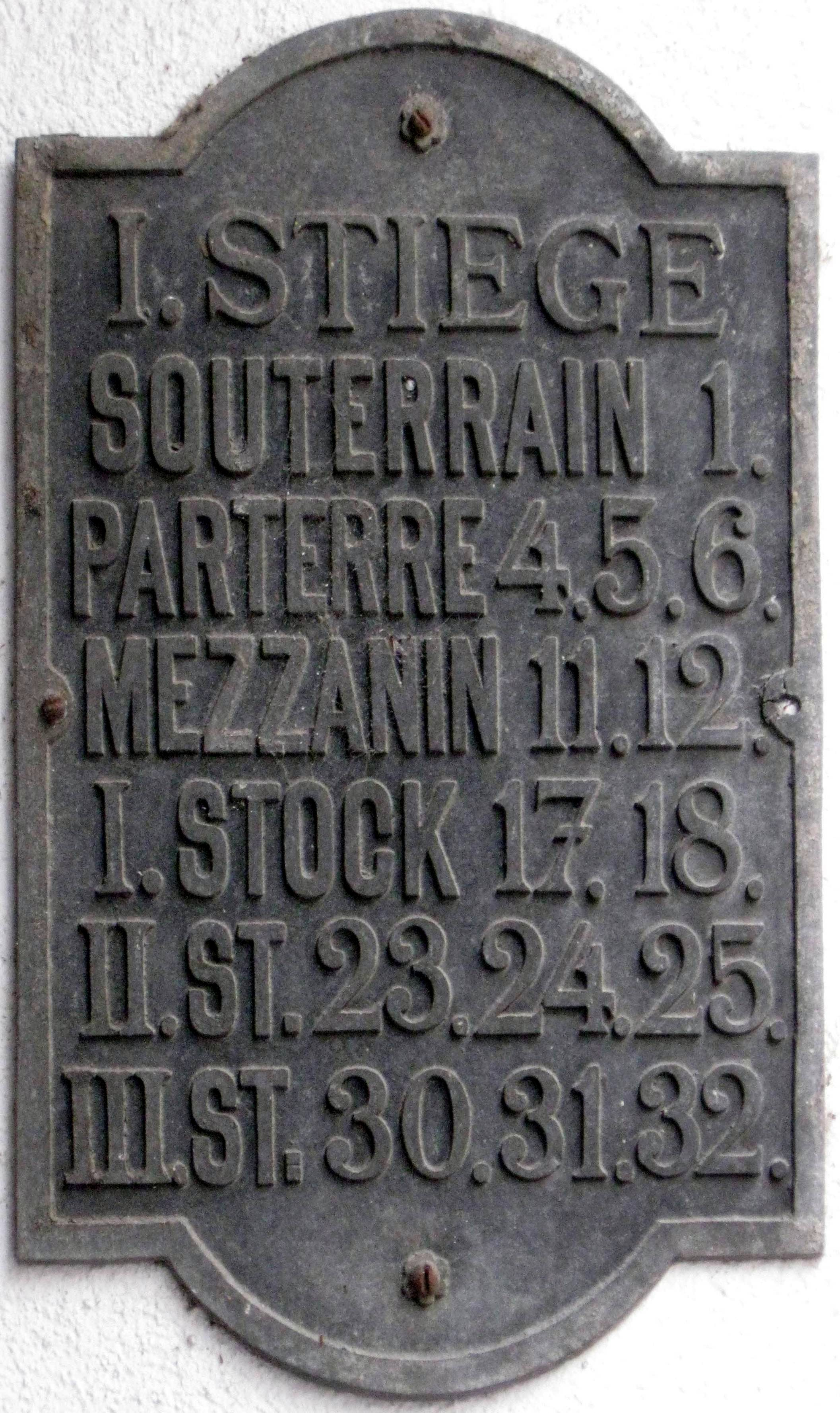 panel for the information of the situation of the flats